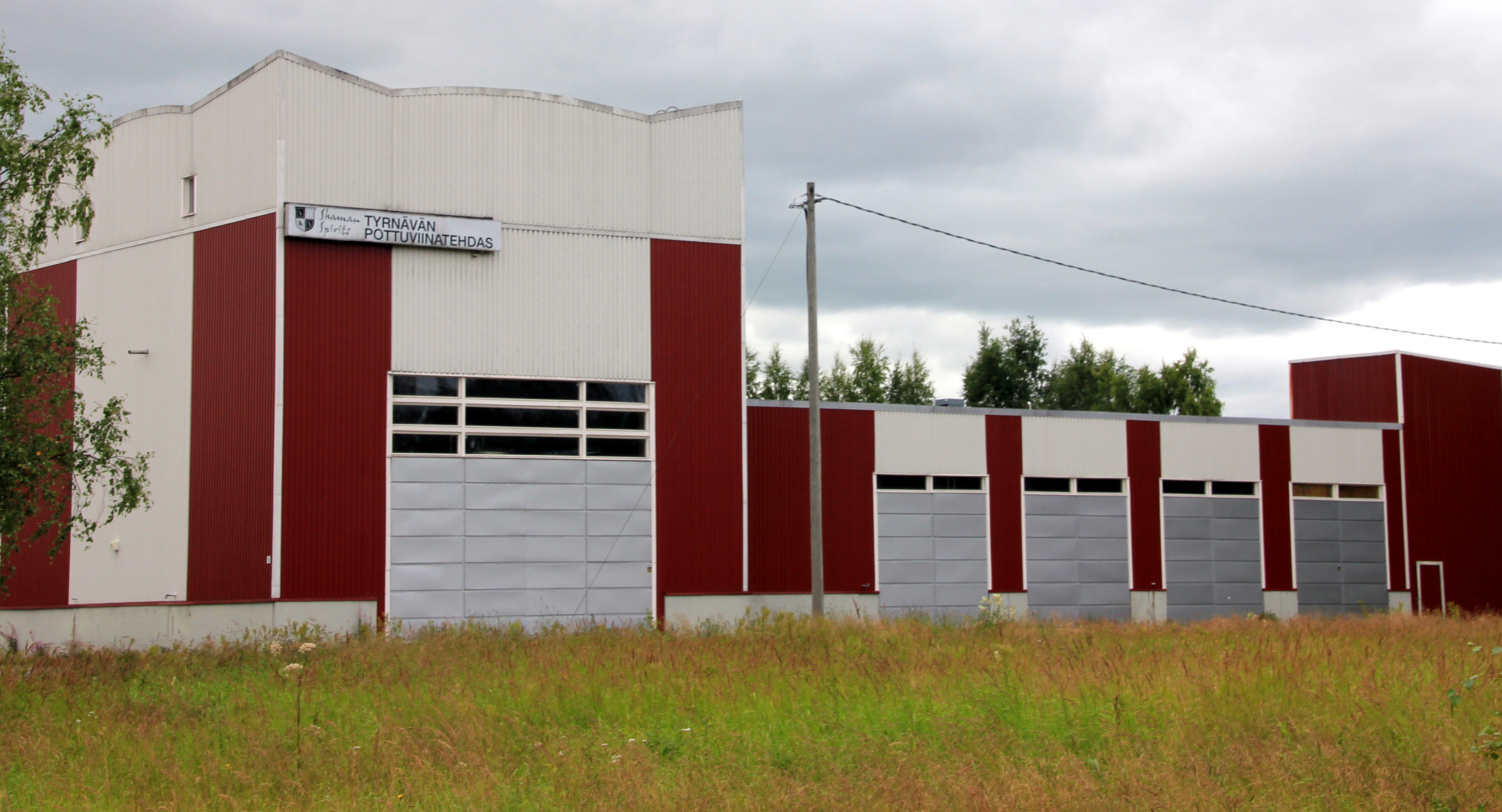 Shaman Spirits distillerie in Tyrnävä, Finland.